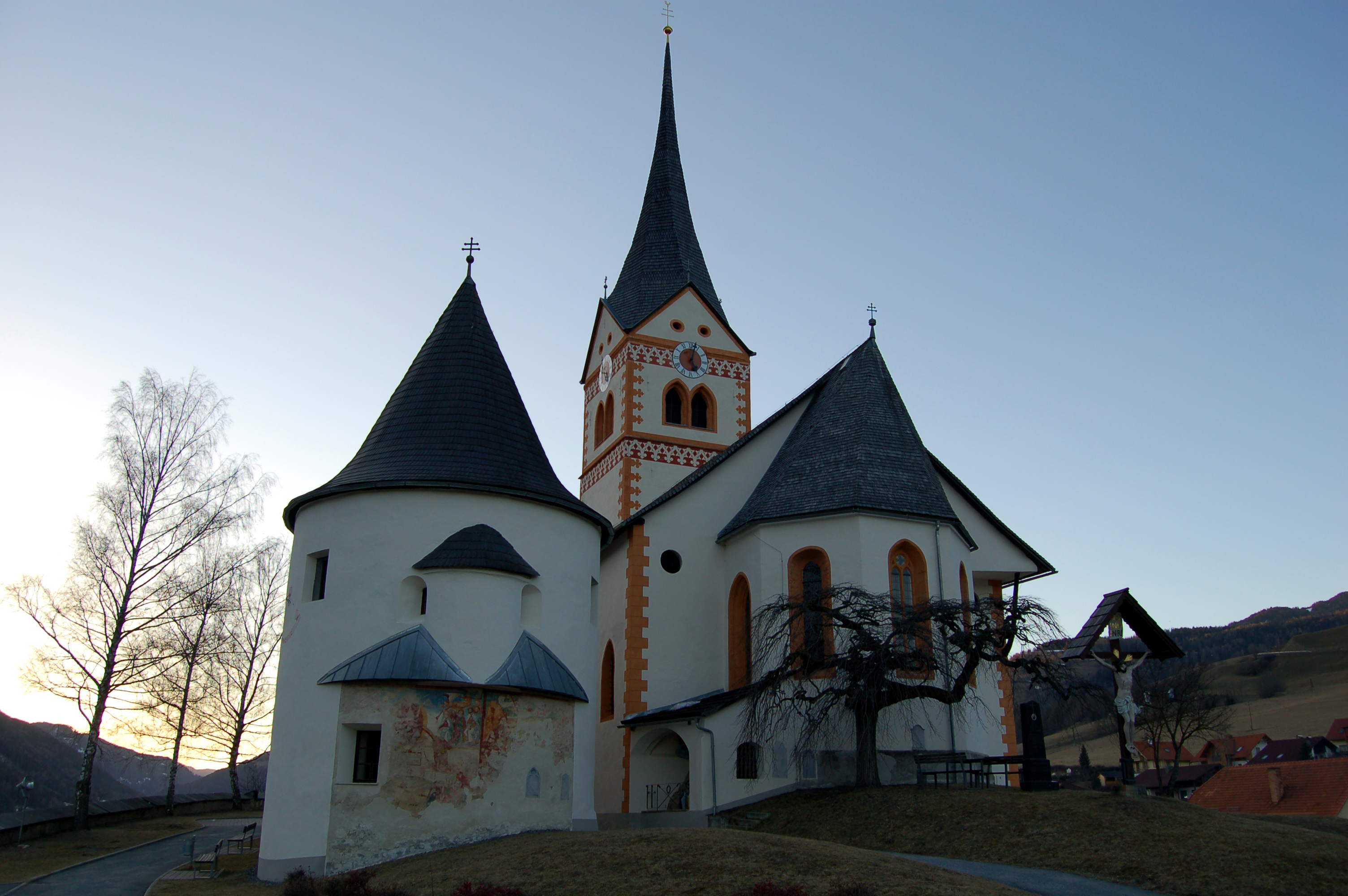 Parish church St. Peter in St. Peter am Kammersberg, Styria (heading west)